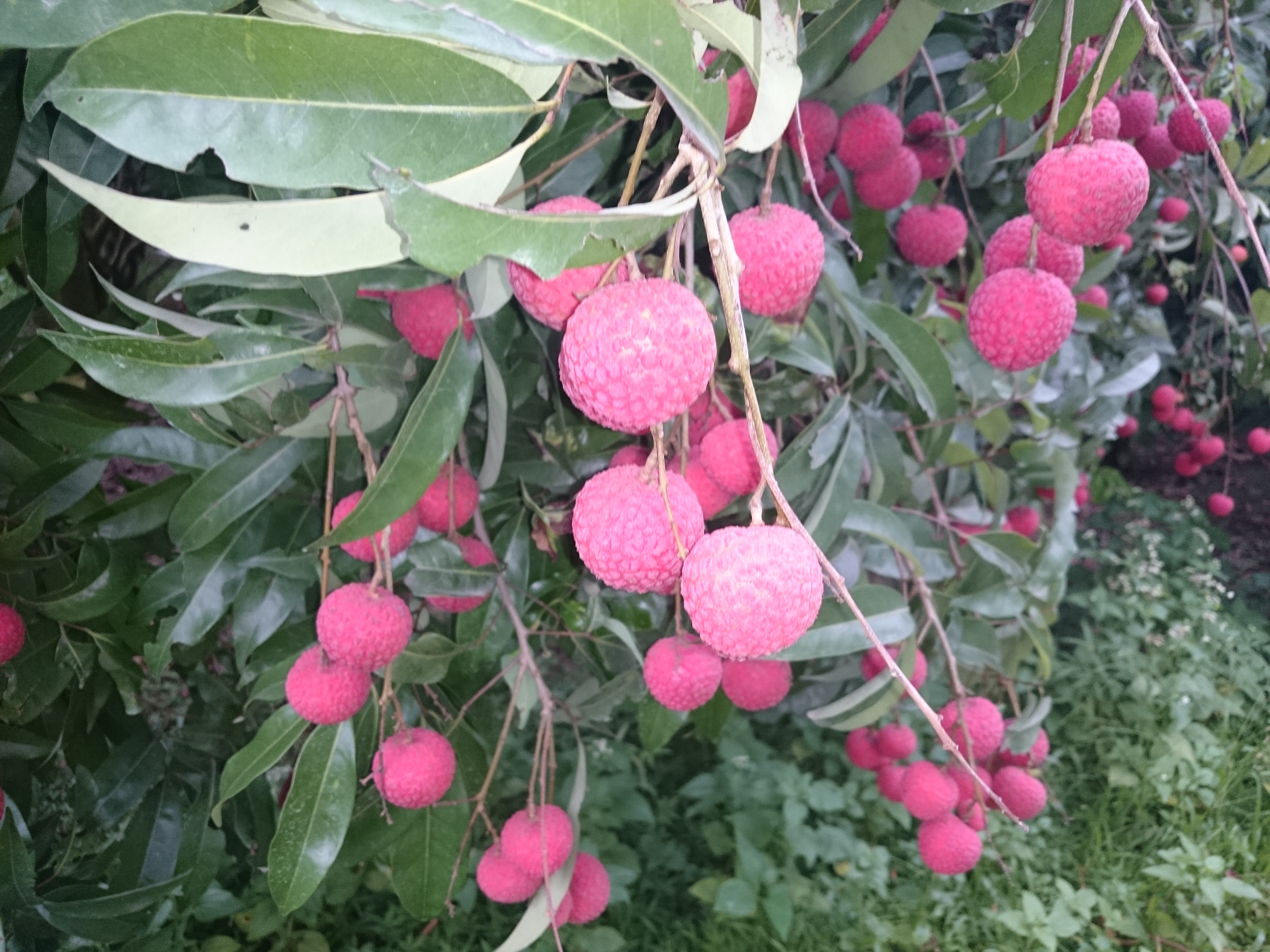 This is Photo of China-3 Lychee